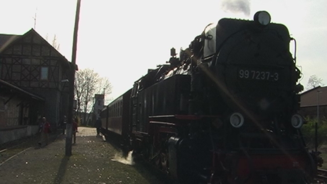 The railroad station from Harzgerode in Germany, with steamlock 99 7237-3.